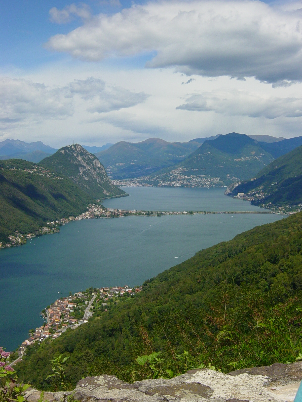 Lake of Lugano seen from south (Serpiano). Bridge between Melide and Bissone.